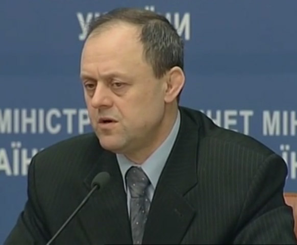 Leonid Polyakov, Ukrainian military